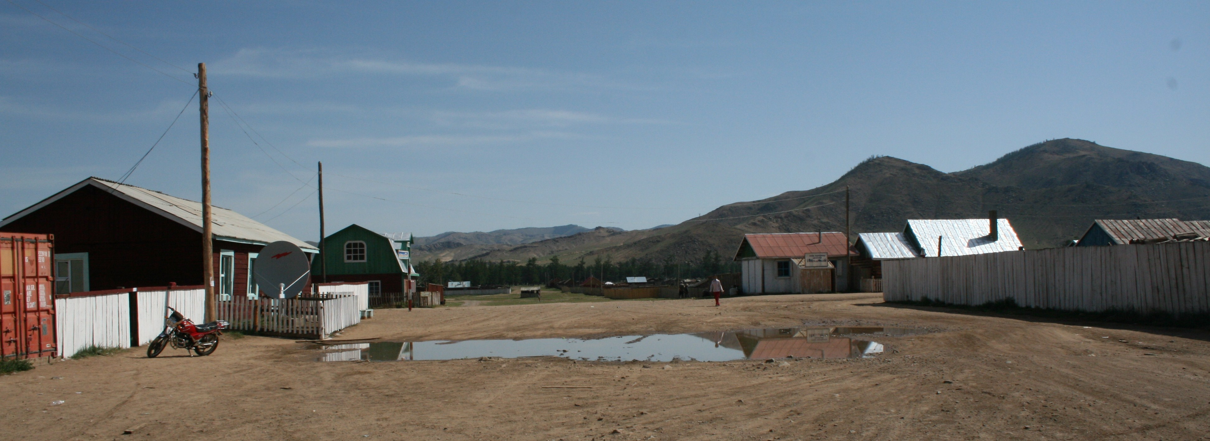 Jargalant sum center (in Khövsgöl). This is the lower part of the settlement, direction of view is roughly eastward.